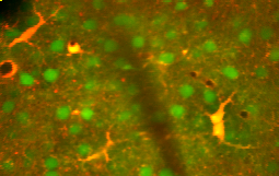 An image illustrating the density of astrocytes and neurons in the cerebral cortex. Astrocytes are shown in red/yellow here. Surrounding neurons' cell bodies are labeled green. A large astrocyte cell body is seen to the right of the image, and throughout, small red dots reflect the processes of astrocytes, which are cut in section by this image. Methods for image collection are similar to that described in Nimmerjahn et al. 2004 Details: Image of in vivo mouse cerebral cortex, collected with a two-photon microscope. Plane of image is of layer 2/3, 220 micron below pial surface and parallel to pia. Image is approx 200 micron in width. Green: neural cell bodies. Red: astrocytic glial cells; some of these wrap around blood vessels, seen in black. Changes in image brightness at the top left corner and on a vertical line in the center of the image are just measurement artifacts and do not reflect true features of the brain.